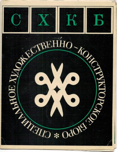 Логотип СХКБ авторства Александра Шумилина